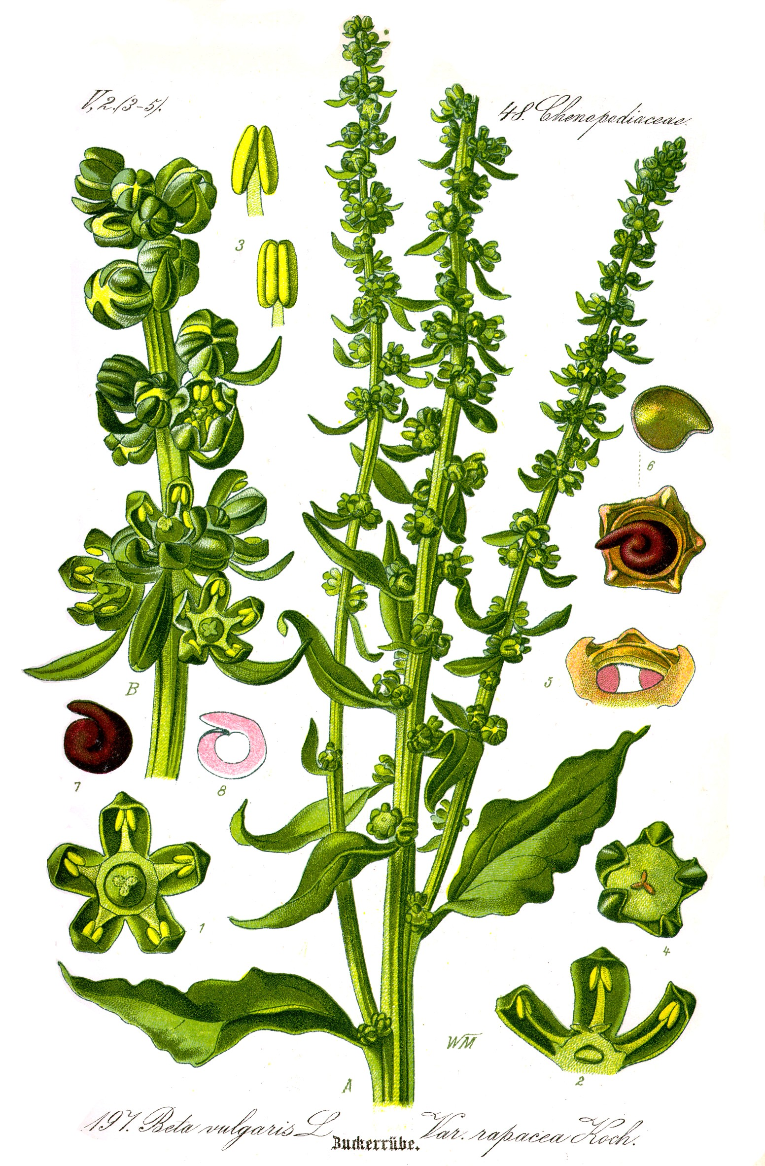 Name Beta vulgaris var. rapacea ;Family:Amaranthaceae Original book source: Prof. Dr. Otto Wilhelm Thomé Flora von Deutschland, Österreich und der Schweiz 1885, Gera, Germany